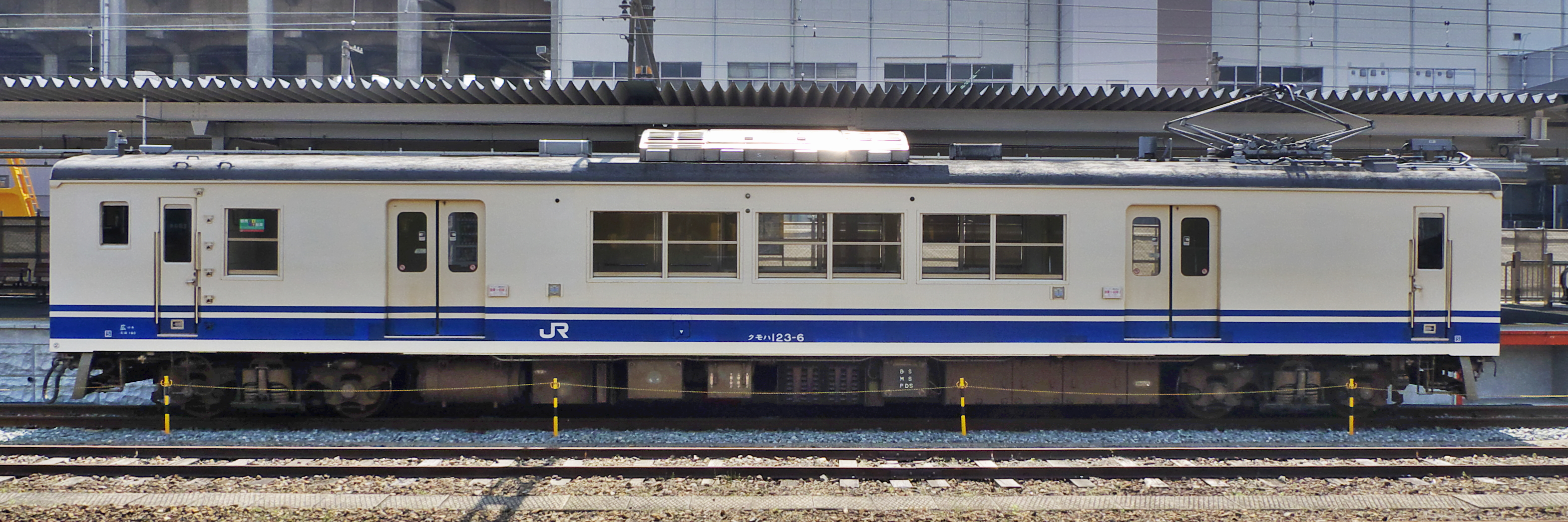 Side view of JNR 123 series EMU Kumoha 123-6